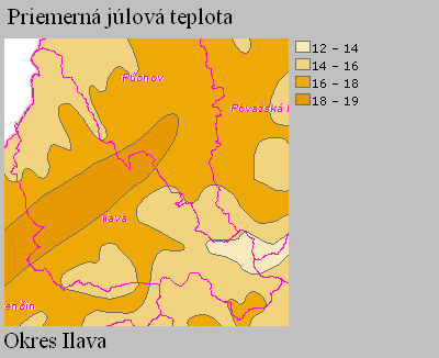 Average temperature in july in the district Ilava.